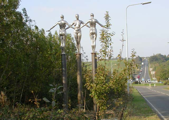 Sculpture on the A5193